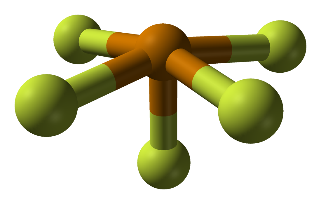 Ball-and-stick model of the coordination geometry of tellurium in the crystal structure of tellurium tetrafluoride, TeF4. X-ray crystallographic data from Angew. Chem. (1984) 96, 351-352. Model constructed in CrystalMaker 8.1. Image generated in Accelrys DS Visualizer.